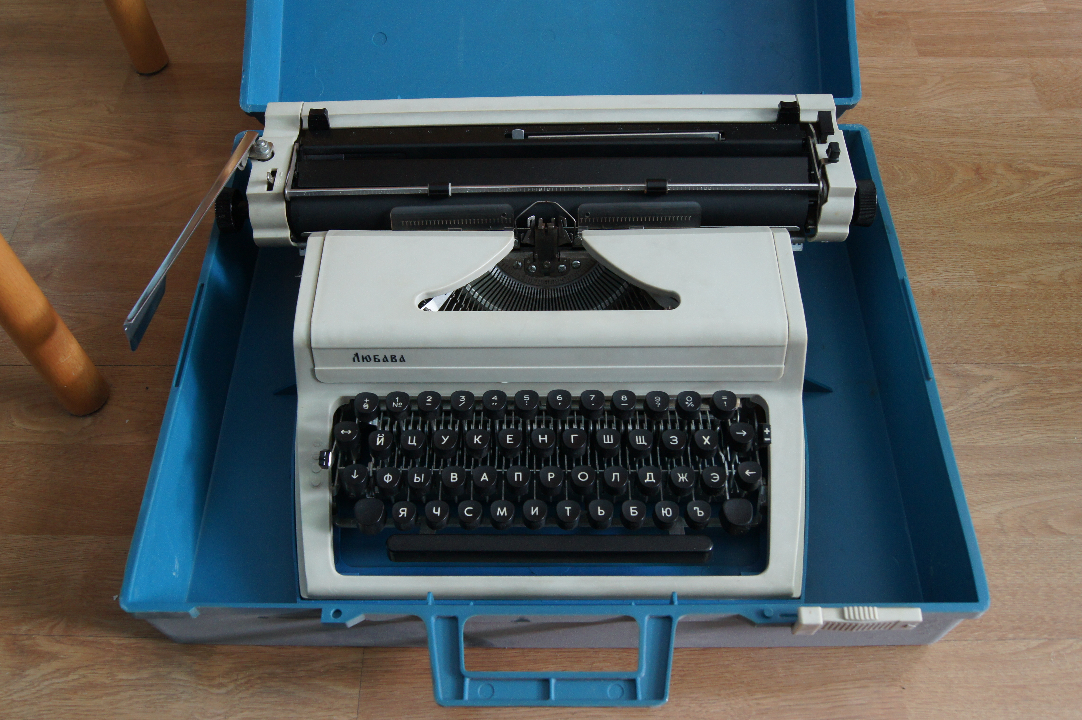 Lyubava typewriter